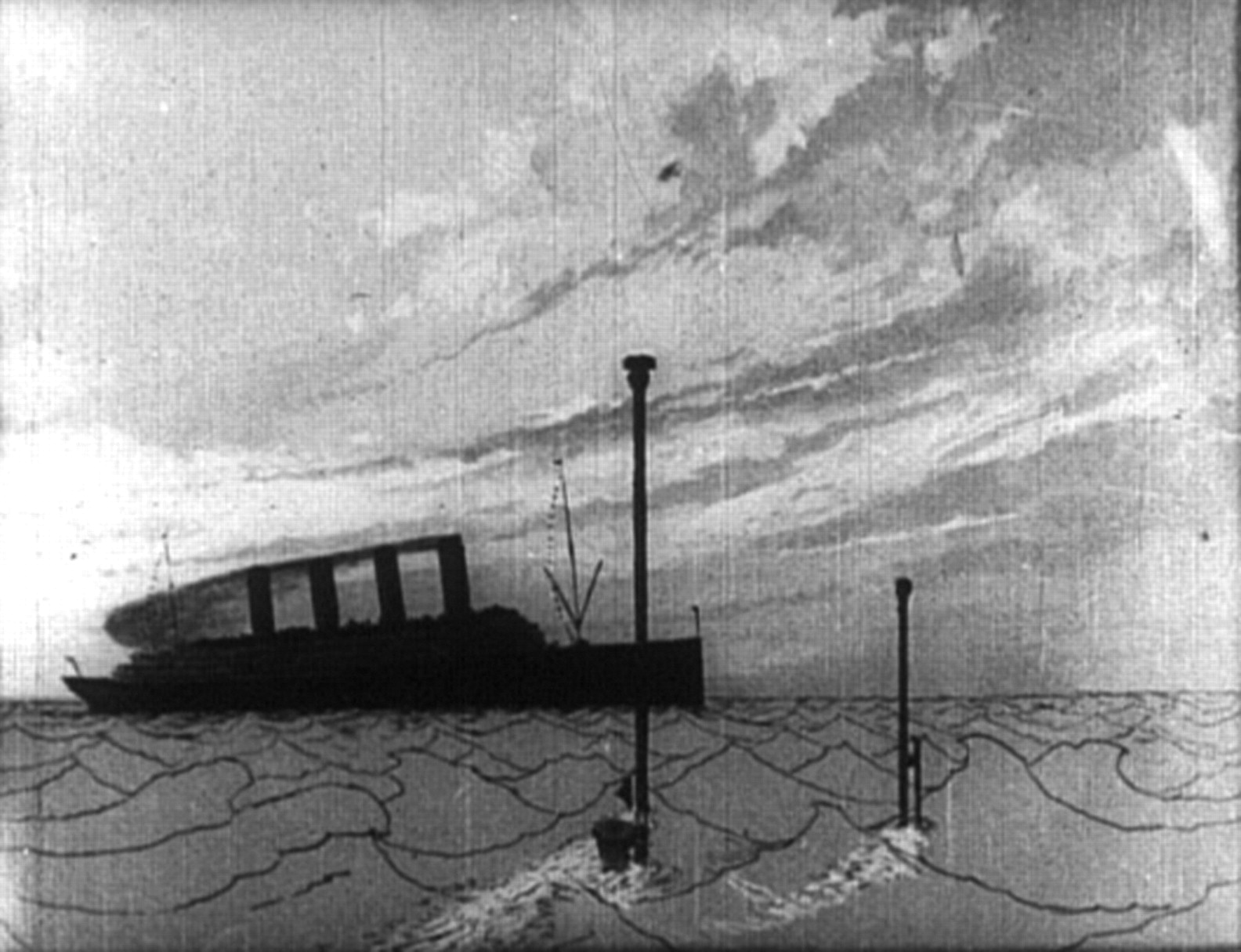 A still from The Sinking of the Lusitania (1918) by Winsor McCay. Two U-Boat periscopes spy on the Lusitania.